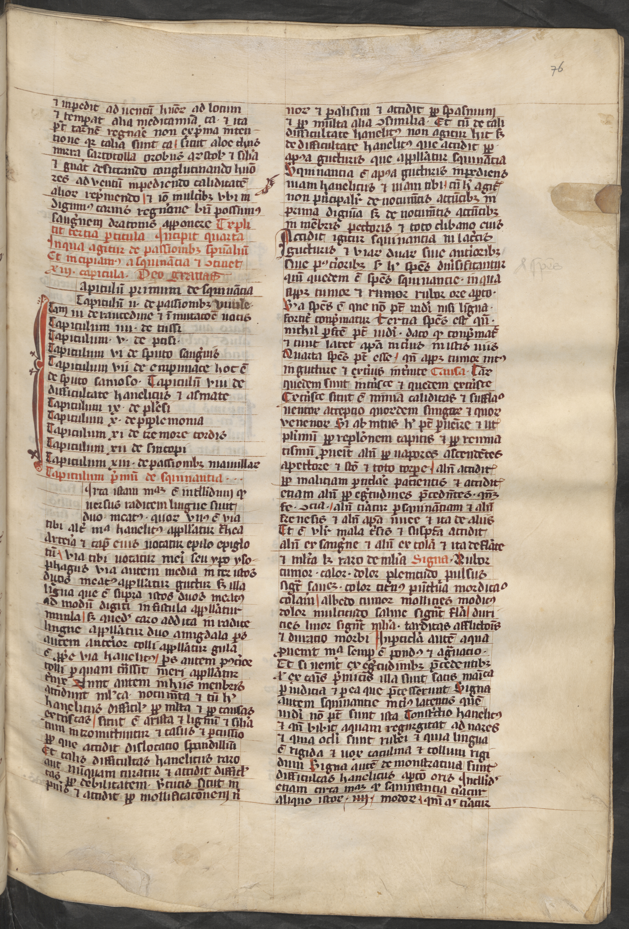 Ms.684, fol. 76r.